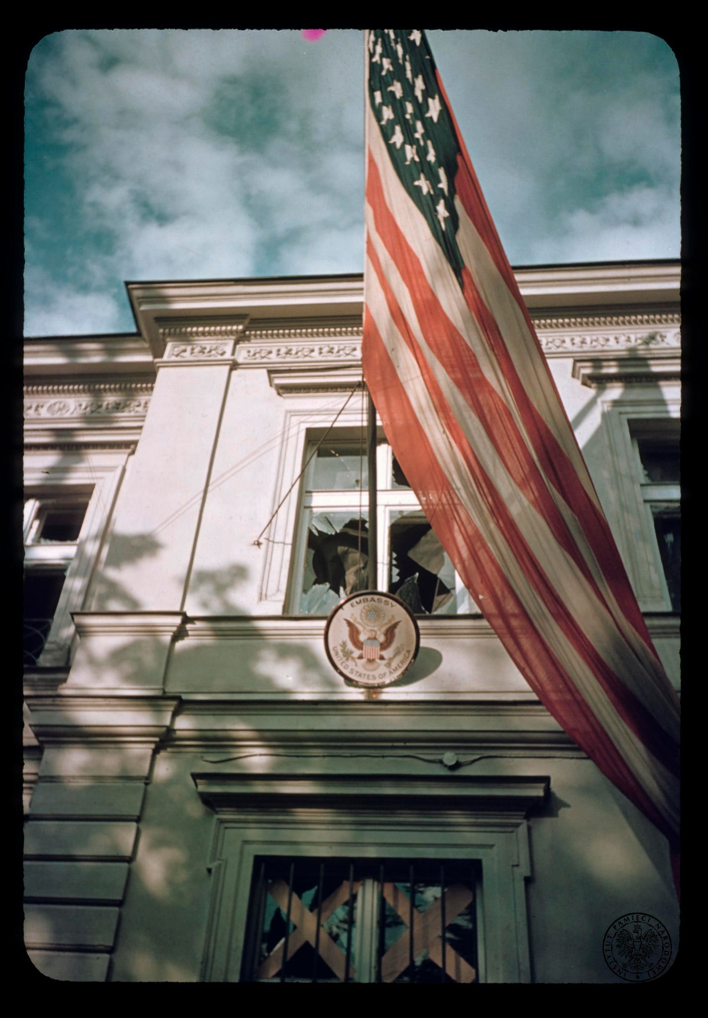 American Embassy in Warsaw during the siege of the capital of Poland in September 1939 by the German army. An American flag hangs outside the shattered window after the German air raid. One of the few Kodak Kodachrome genuine color photos made by Julien Bryan in Warsaw in 1939. Other color photos showing destroyed German bomber He-111 near the Bartoszewicza Street, Polish soldiers fighting during the Second World War, fleeing civilians and the Old Town. More color photographs, one Kodachrome roll survived in the United States Holocaust Memorial Museum in Washington. WARNING:This photo is tiny and washed out. There is also better quality version of this photo where the inscription is clearly visible: "EMBASSY UNITED STATES OF AMERICA". Please add more sharp and larger photo. Thanks.